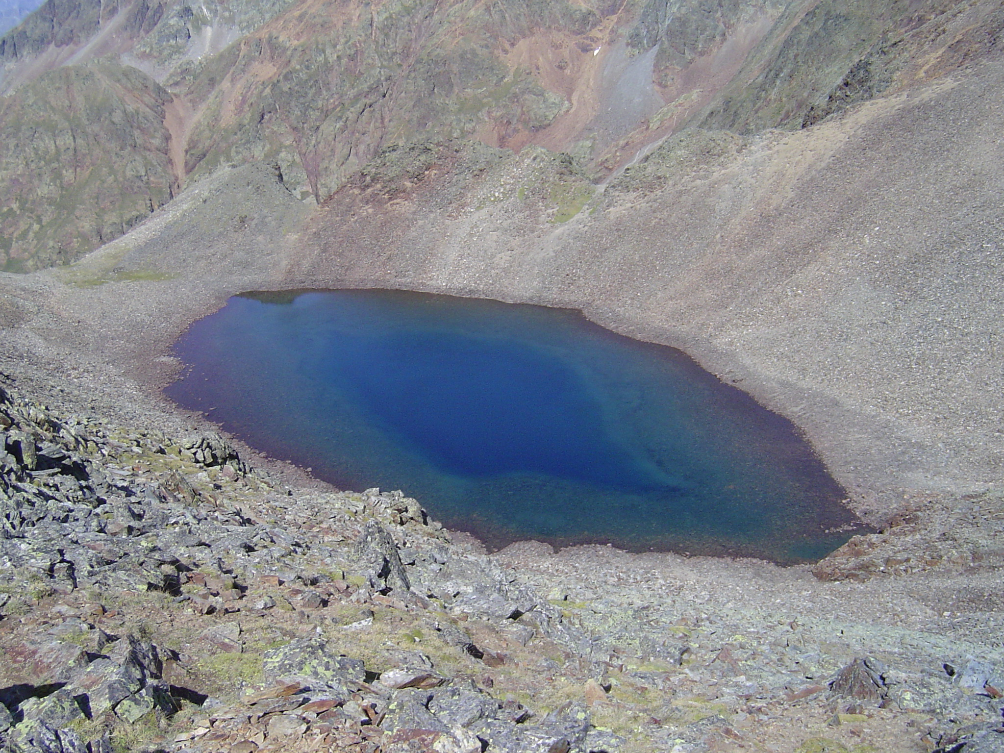 L'Estanyol Occidental de Canalbona is between the "pic de Canalbona" and the "pic rodó de Canalbona" (round pike of Canalbona); in the base of the "Collet Fals" in the Montcalm massif near the "Pica d'Estats". Drains in the catalan side. At the end of summer the water was was totally melted.